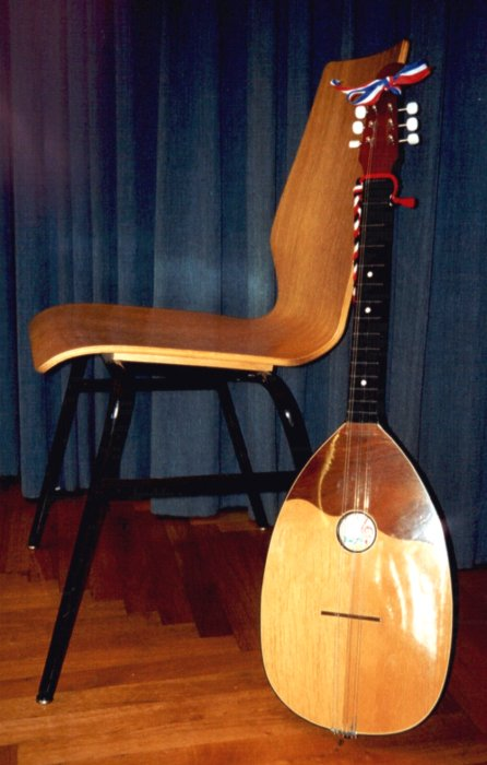 Brac, a Croatian instrument used in tamburica ensembles. Size compared to that of a chair.